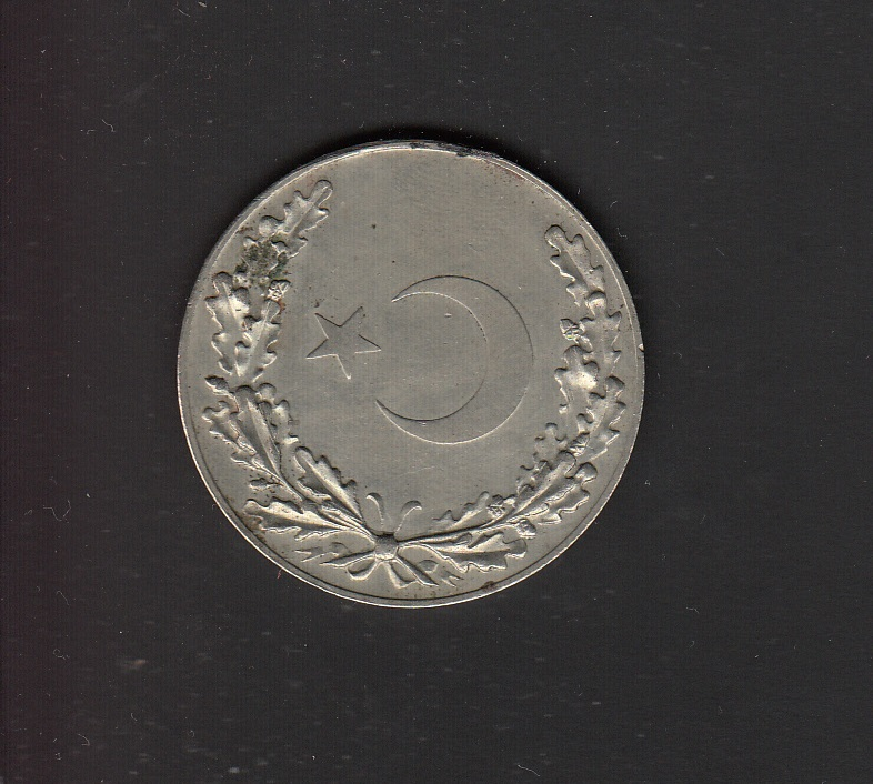 1937 Thrace Military Manouvres Momento belonging to cavalry non-commisioned officer Rıza Eratalay